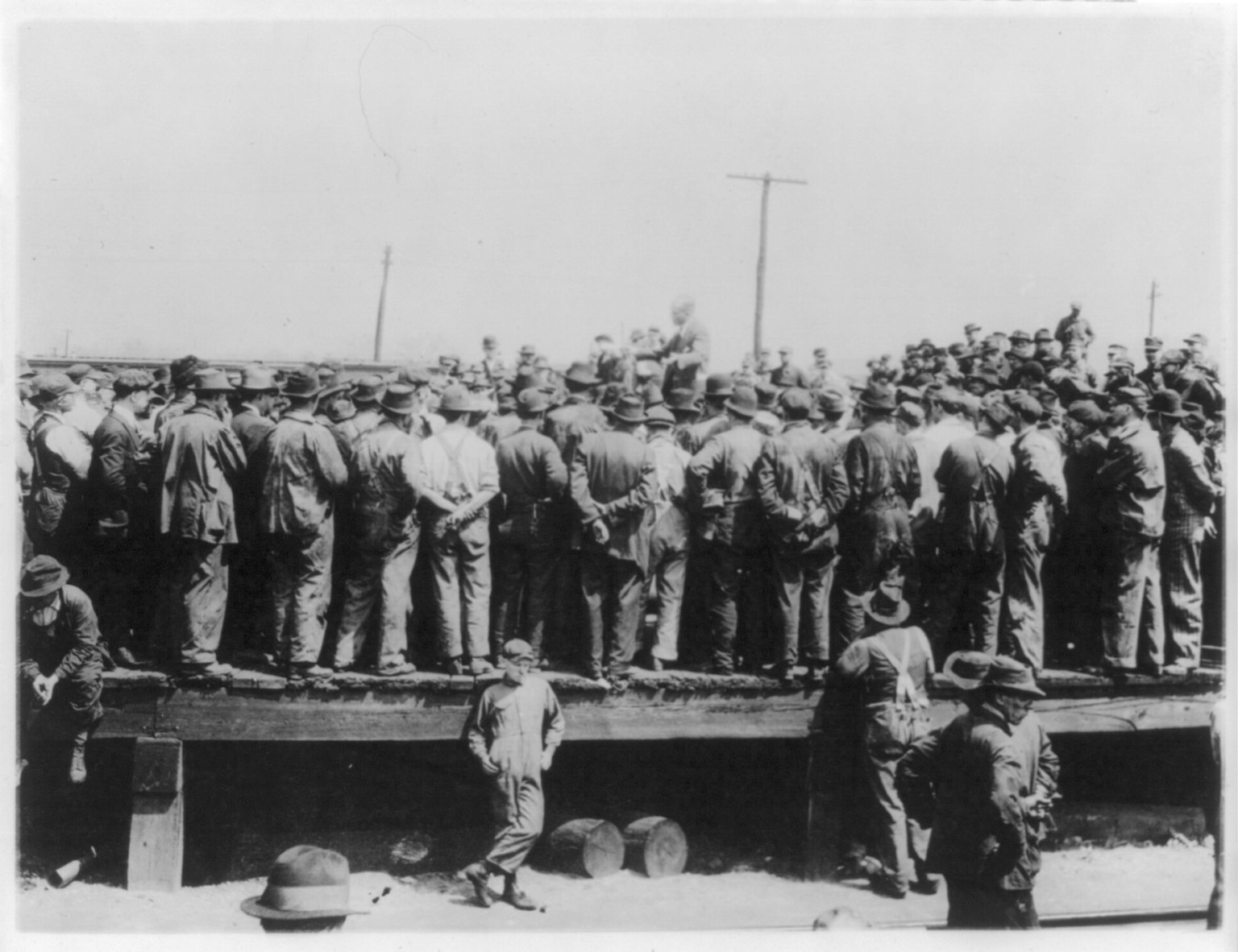 Title: The threatening steel strike Abstract/medium: 1 photographic print.